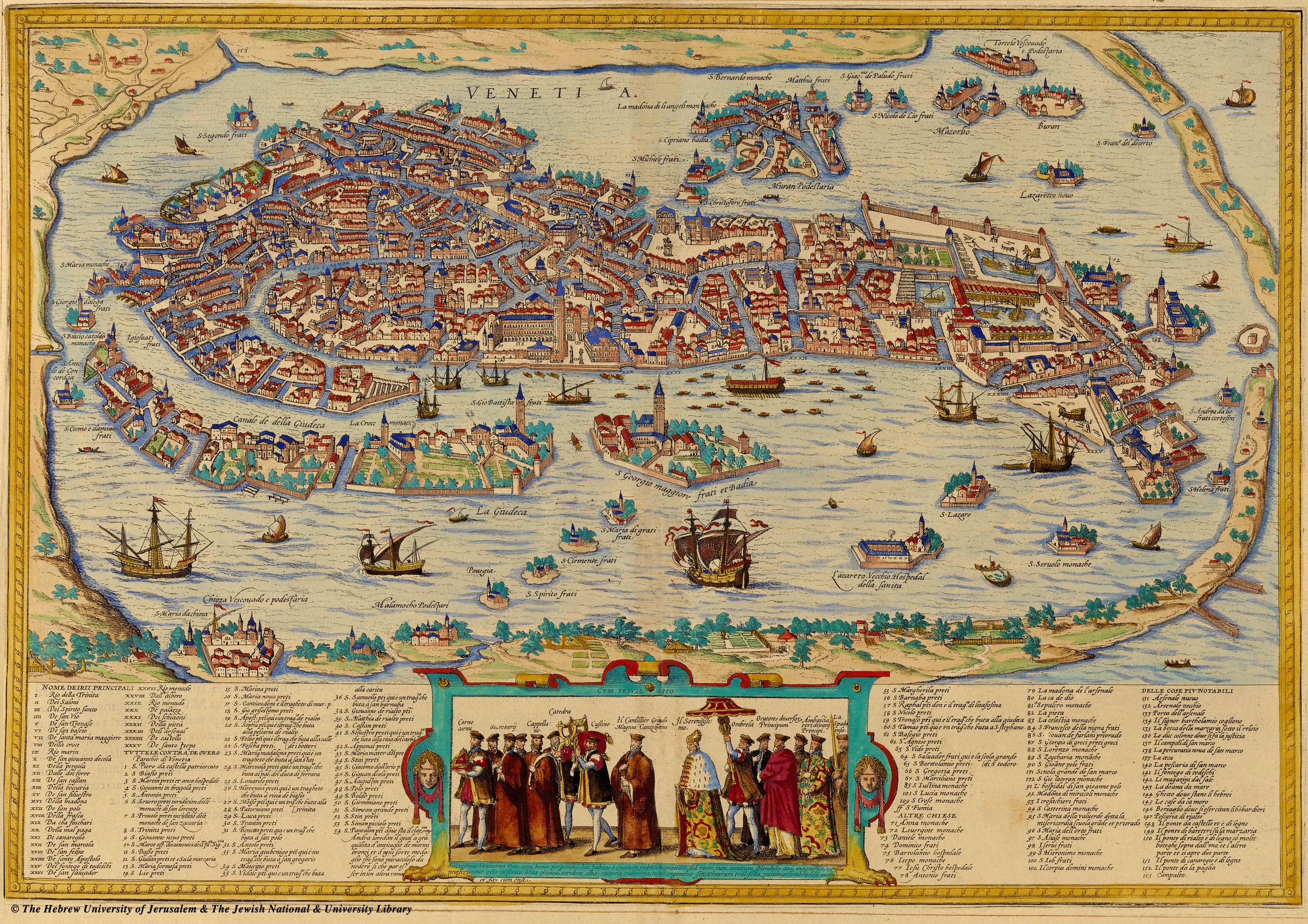 Venice Map from 1572